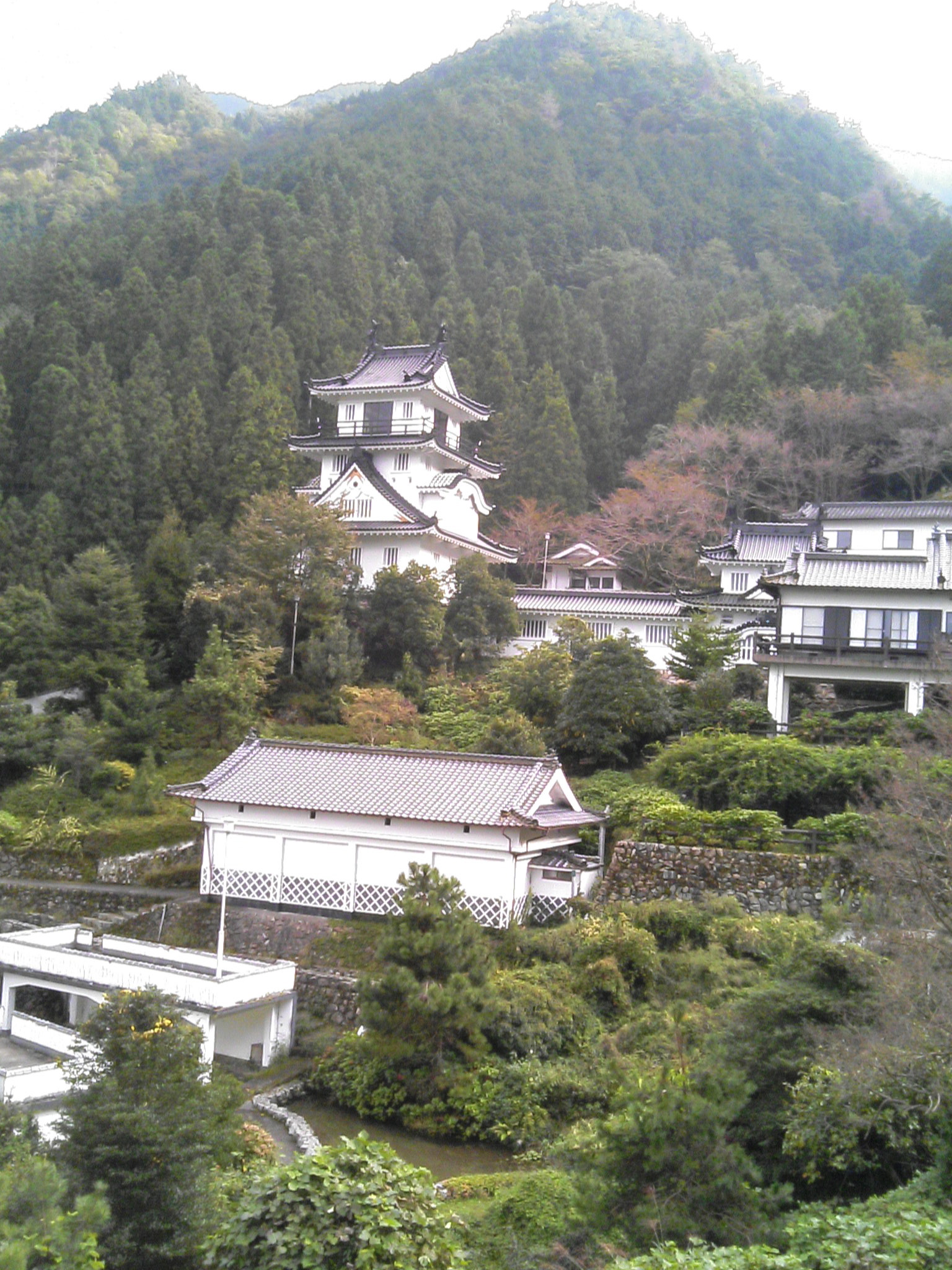 Castle Land in Seiyo, Ehime